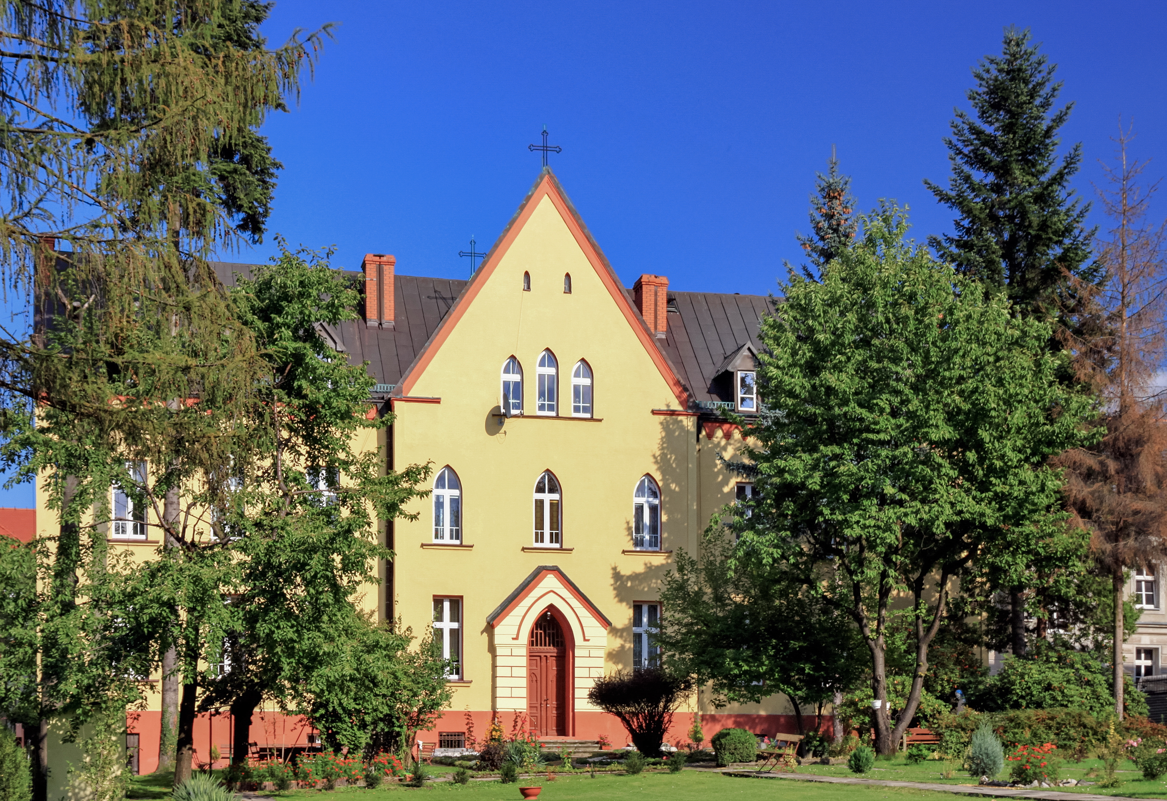 Former Saint Joseph House, now monastery of the Sisters of Mercy of St. Borromeo. Jastrzębie-Zdrój, Silesian Voivodeship, Poland.